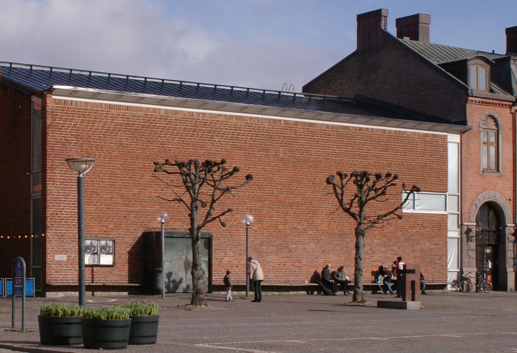 Lund konsthall.